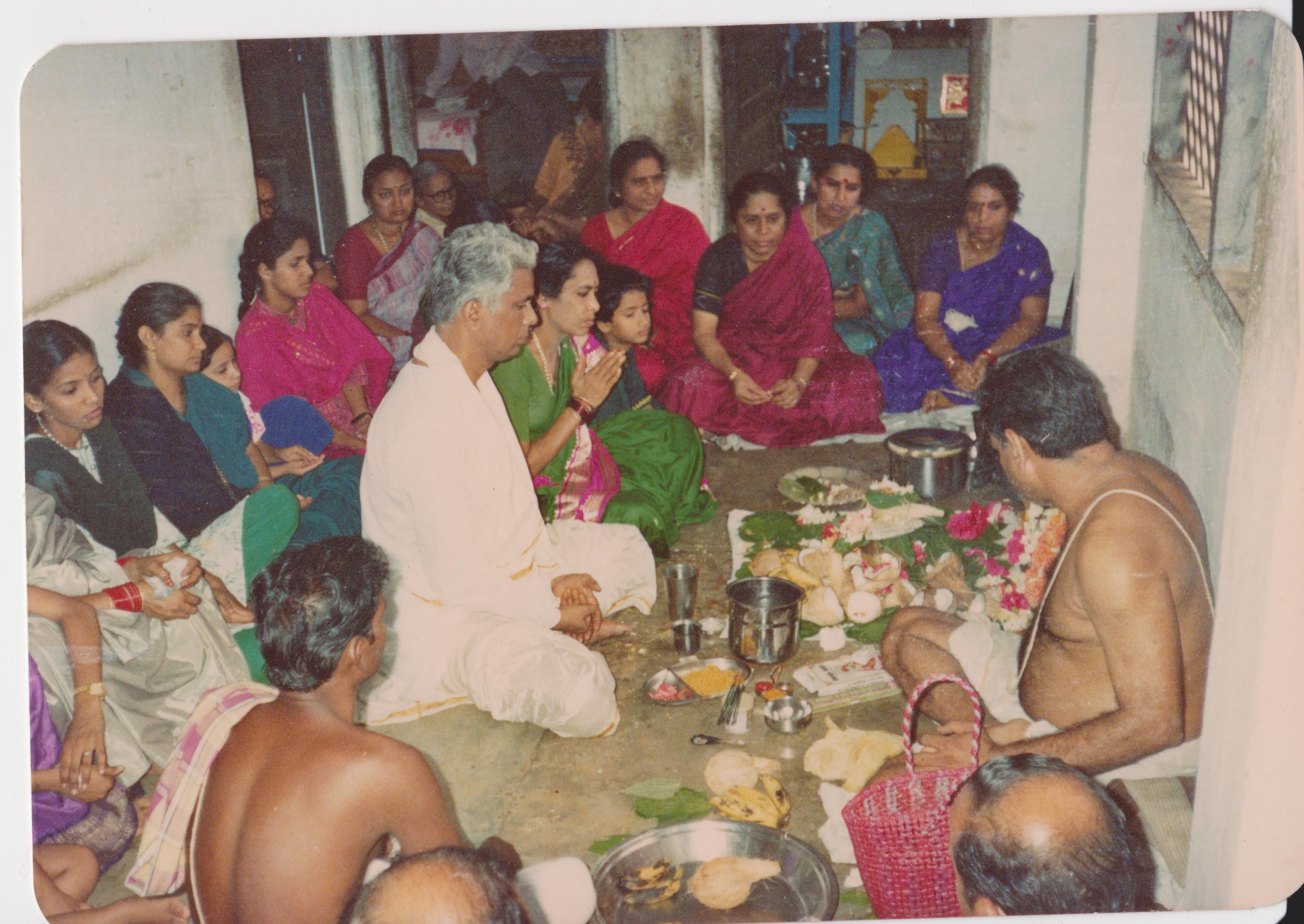 Family and friends witnessing Sri Satyanarayana Puja